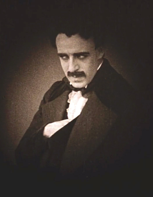 Scene from the movie Birth of a Nation (1915).